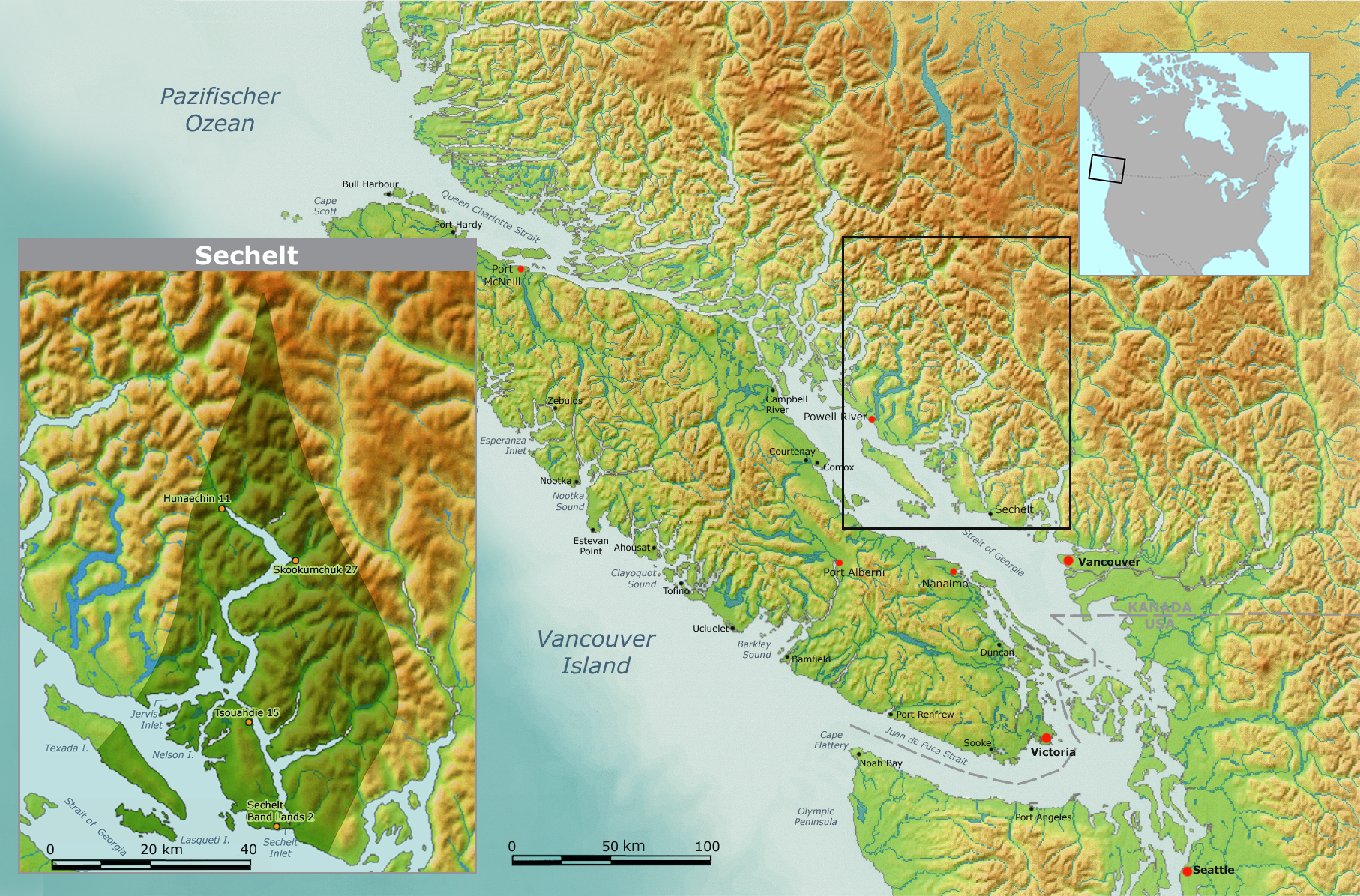 Map of Sechelt tribal territory.